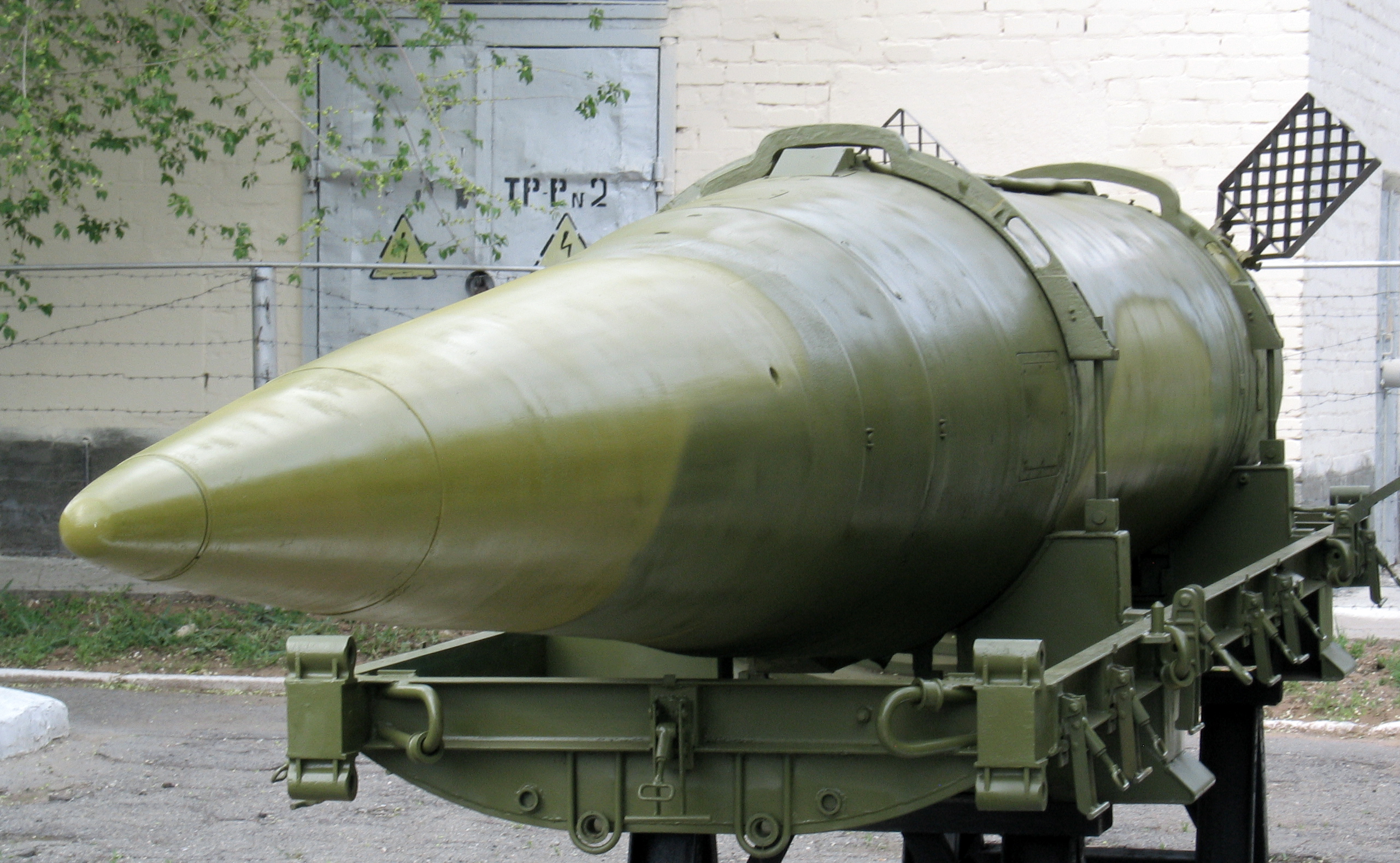 9M714 missile of 9K714 missile complex «Oka». Kapustin Yar museum in Znamensk, Russia.